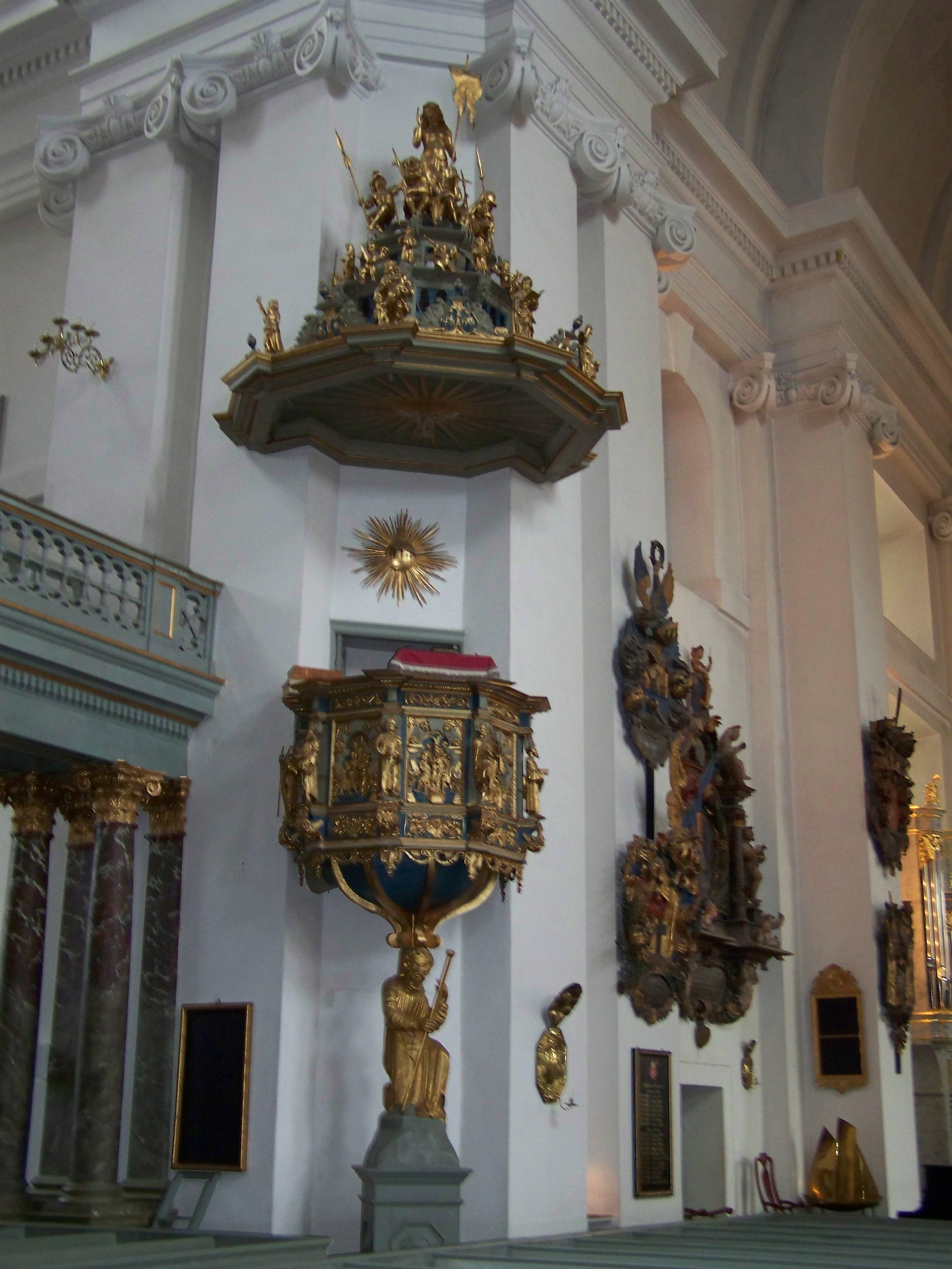 Baroque pulpit at Kalmar domkyrka in Sweden.